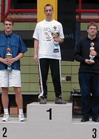 Florian Grafl, Andreas Schenk und Ferenc Langheinrich, German youth chess championship 2000 at Überlingen, Photo von Gerhard Hund.